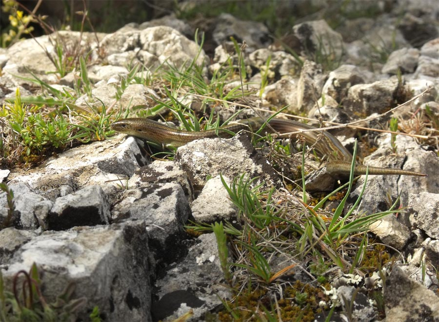 Chalcides chalcides photographed in Gargano area (Apulia, southern Italy) in a dry karstic meadow with Orchidaceae bloom. Photo by Marcelli Massimiliano.